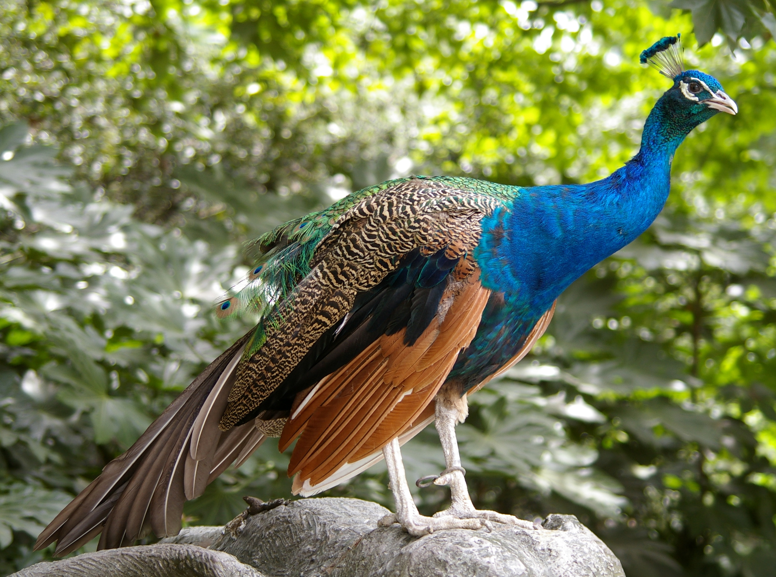 Indian Peafowl